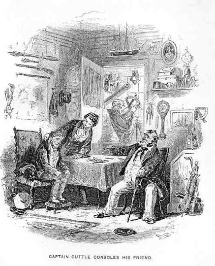 Illustration by Phiz for the Charles Dickens' novel Dombey and Son.